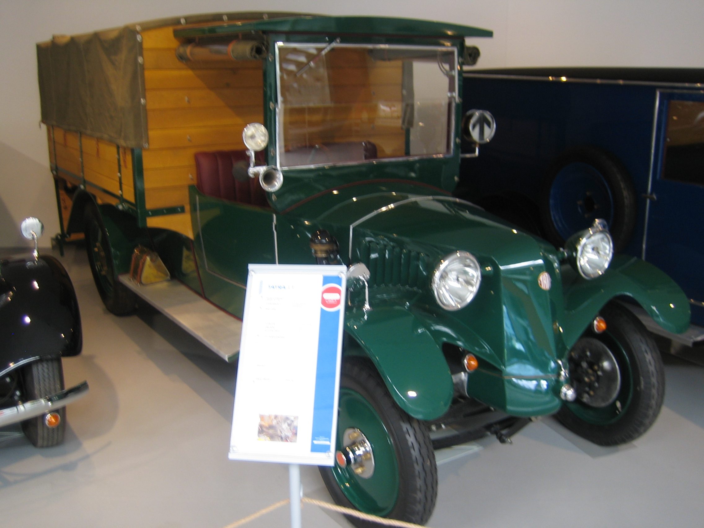 Tatra 13